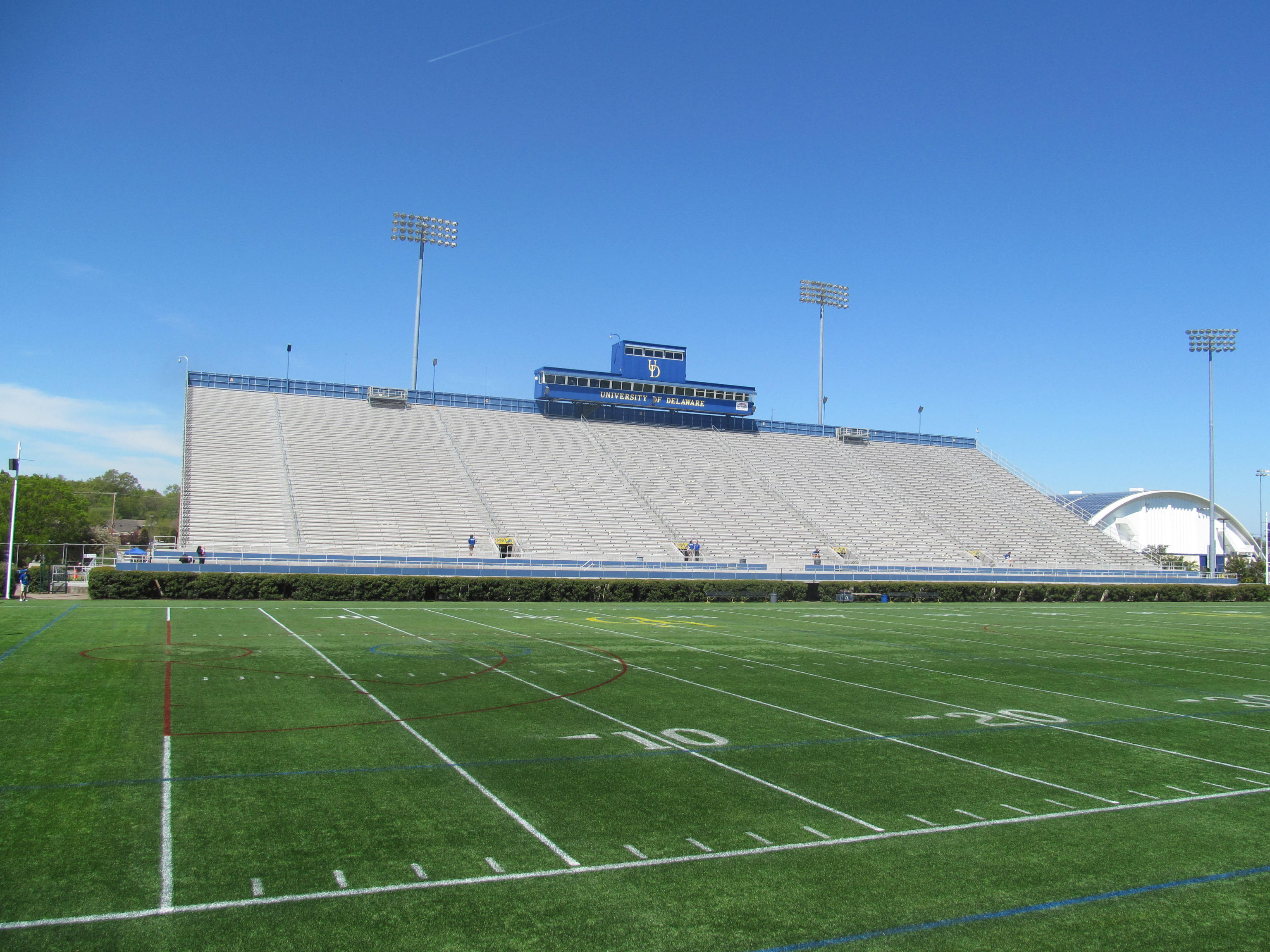 A view of the interior of Delaware Stadium facing the home stands.